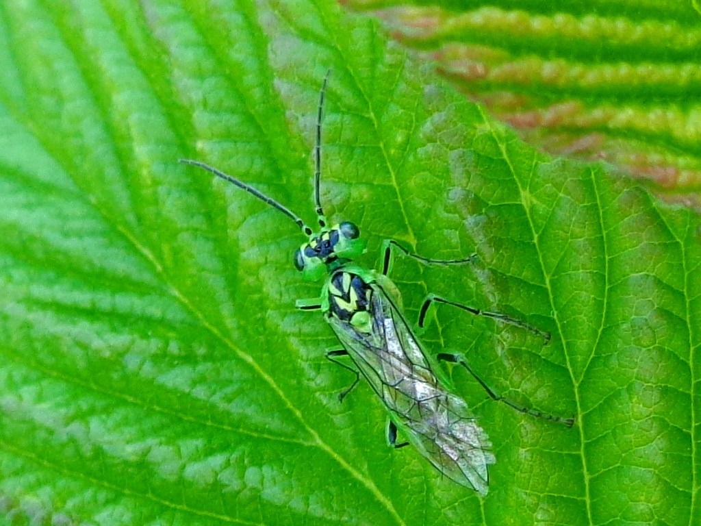 Rhogogaster chlorosoma on Rubus idaeus. Found in Bērzi village near Bauska city, Latvia.